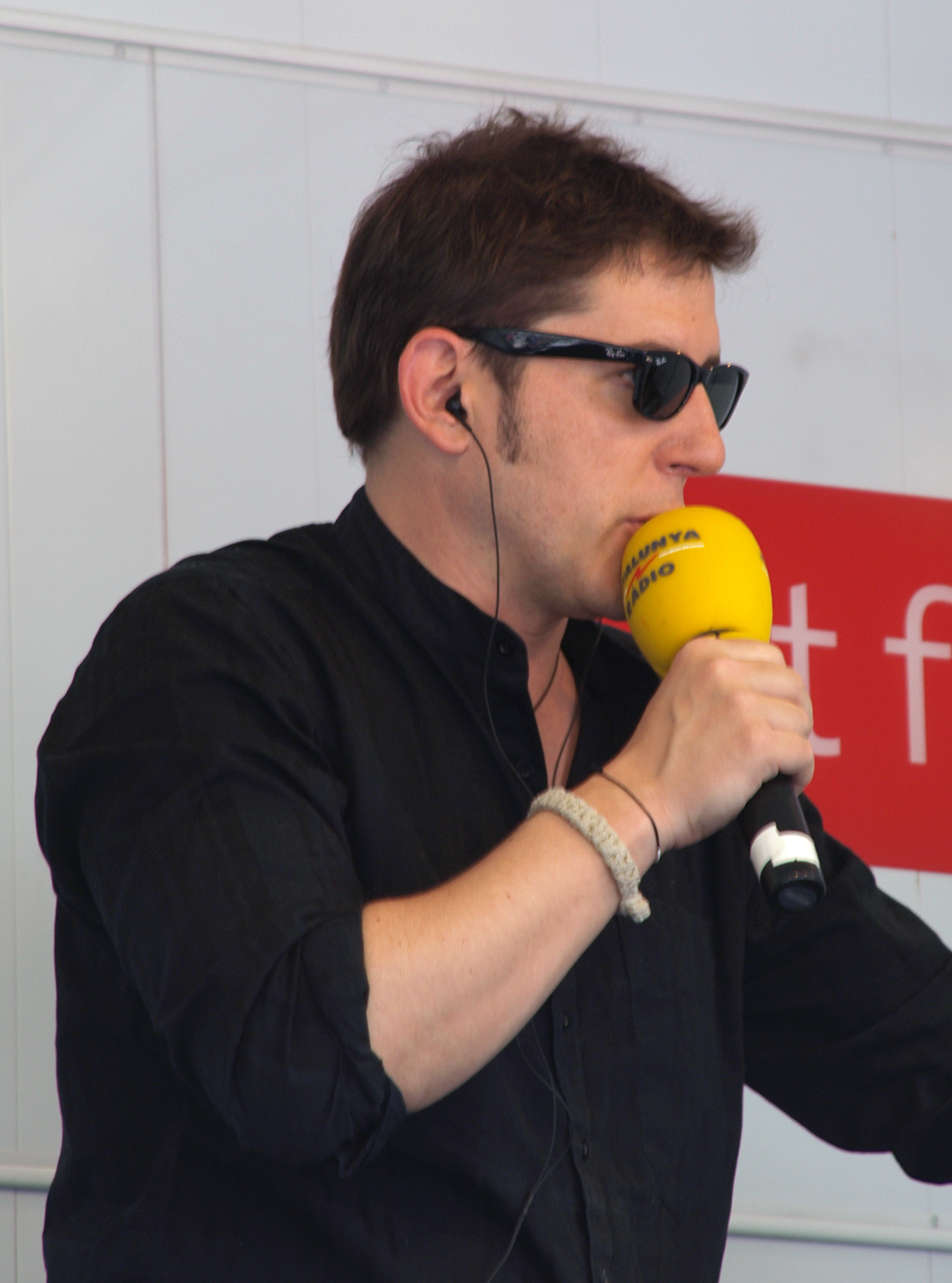 Manel Fuentes, Spanish journalist.